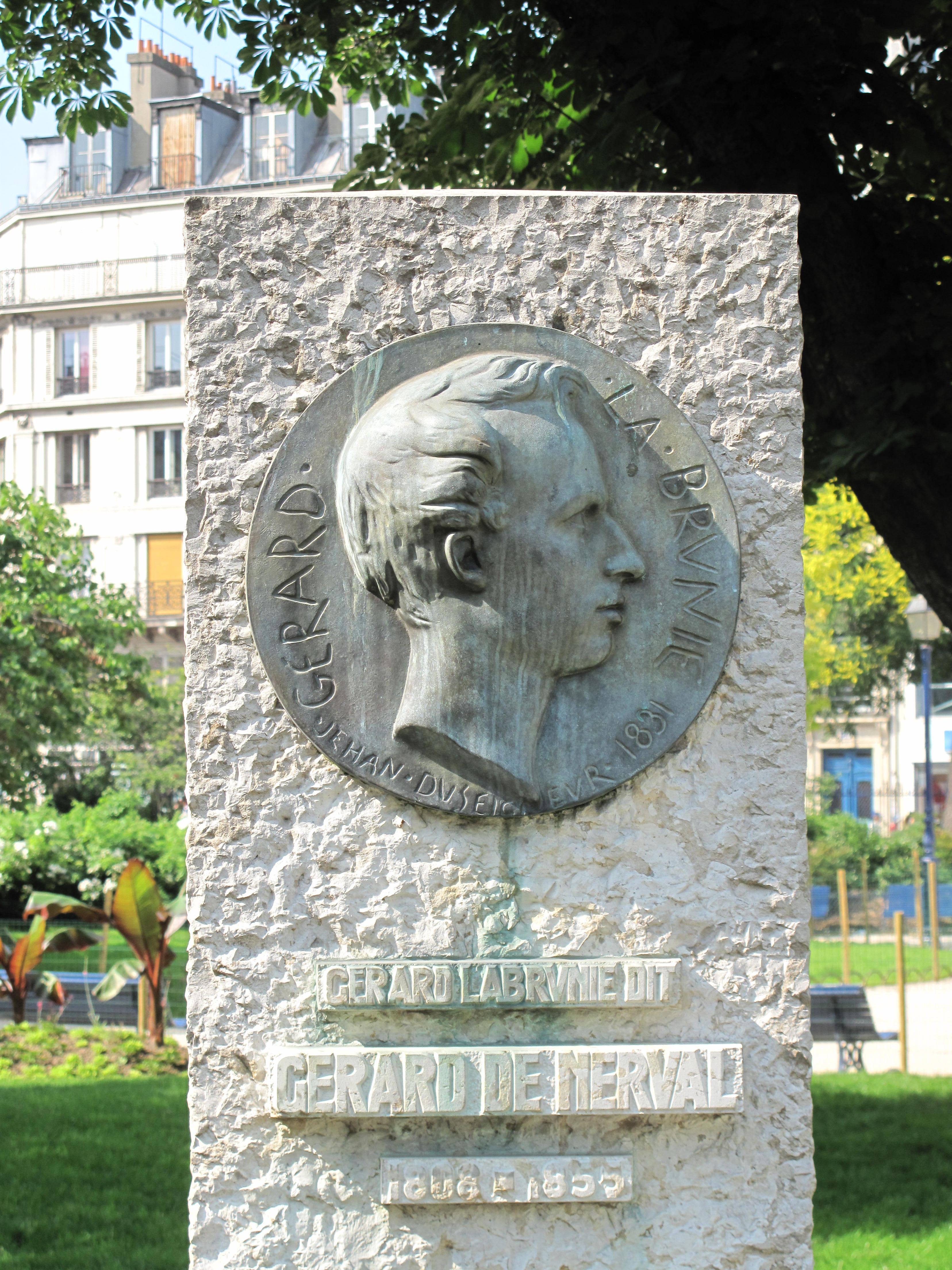 Plaque in memory of Gérard de Nerval in the square of the tour Saint-Jacques, Paris 4e arr.